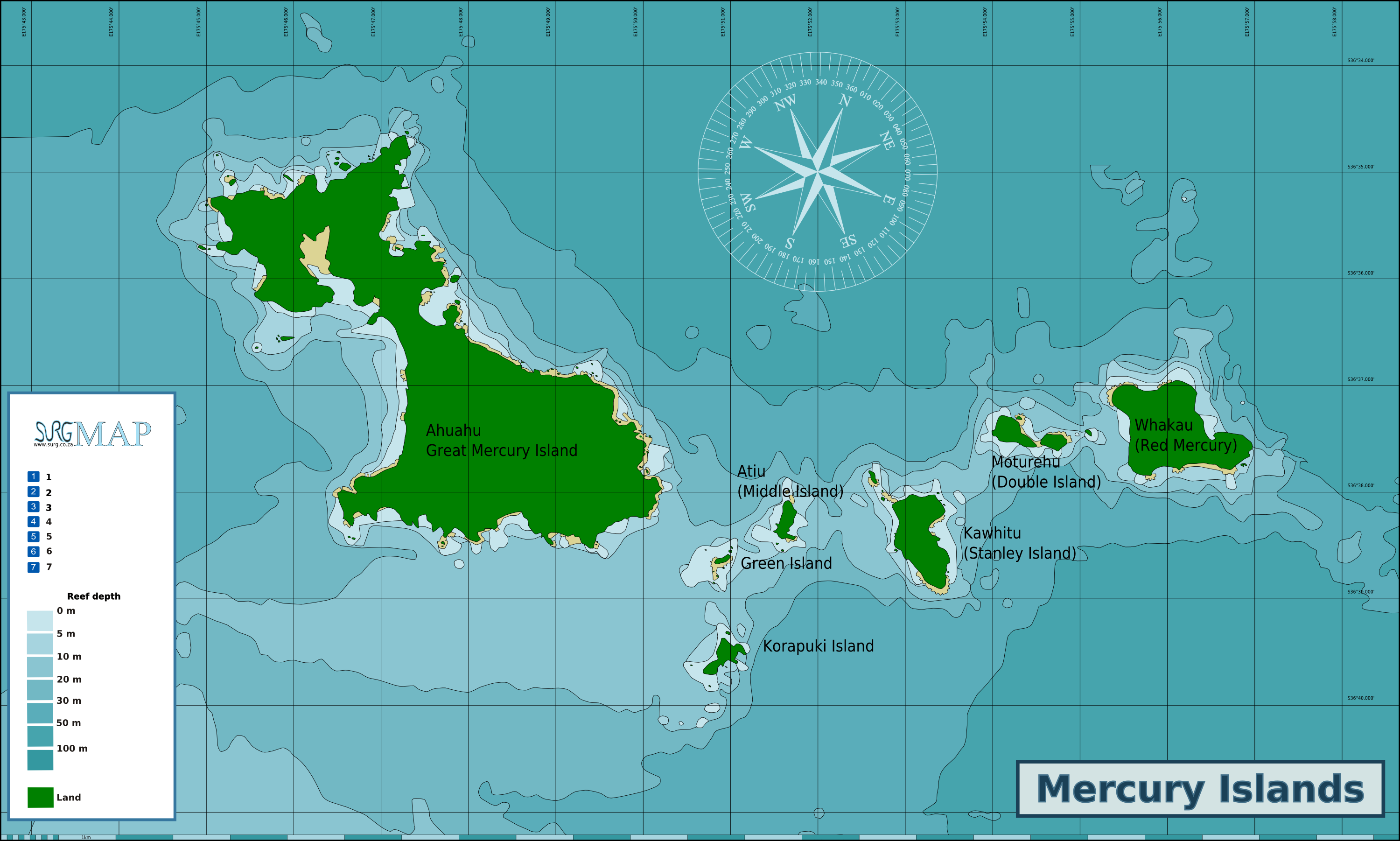 Map showing the position and dive sites at the Mercury Islands, New Zealand